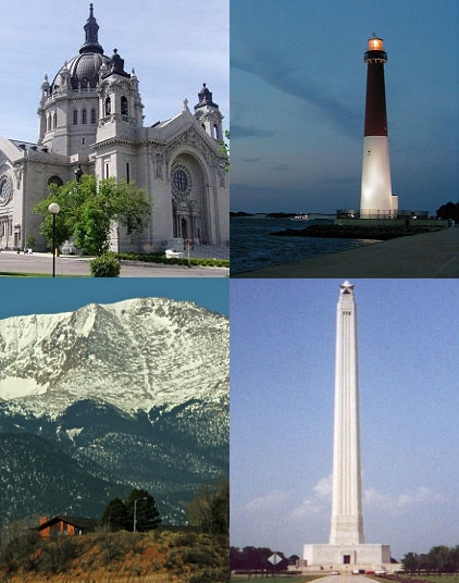 Collage garnered from: File:San Jacinto Monument (2001-05).jpg, File:CathedralofStPaul.jpg, File:Pikes_Peak_by_David_Shankbone.jpg and File:NJ LBI Lighthouse 03.JPG.